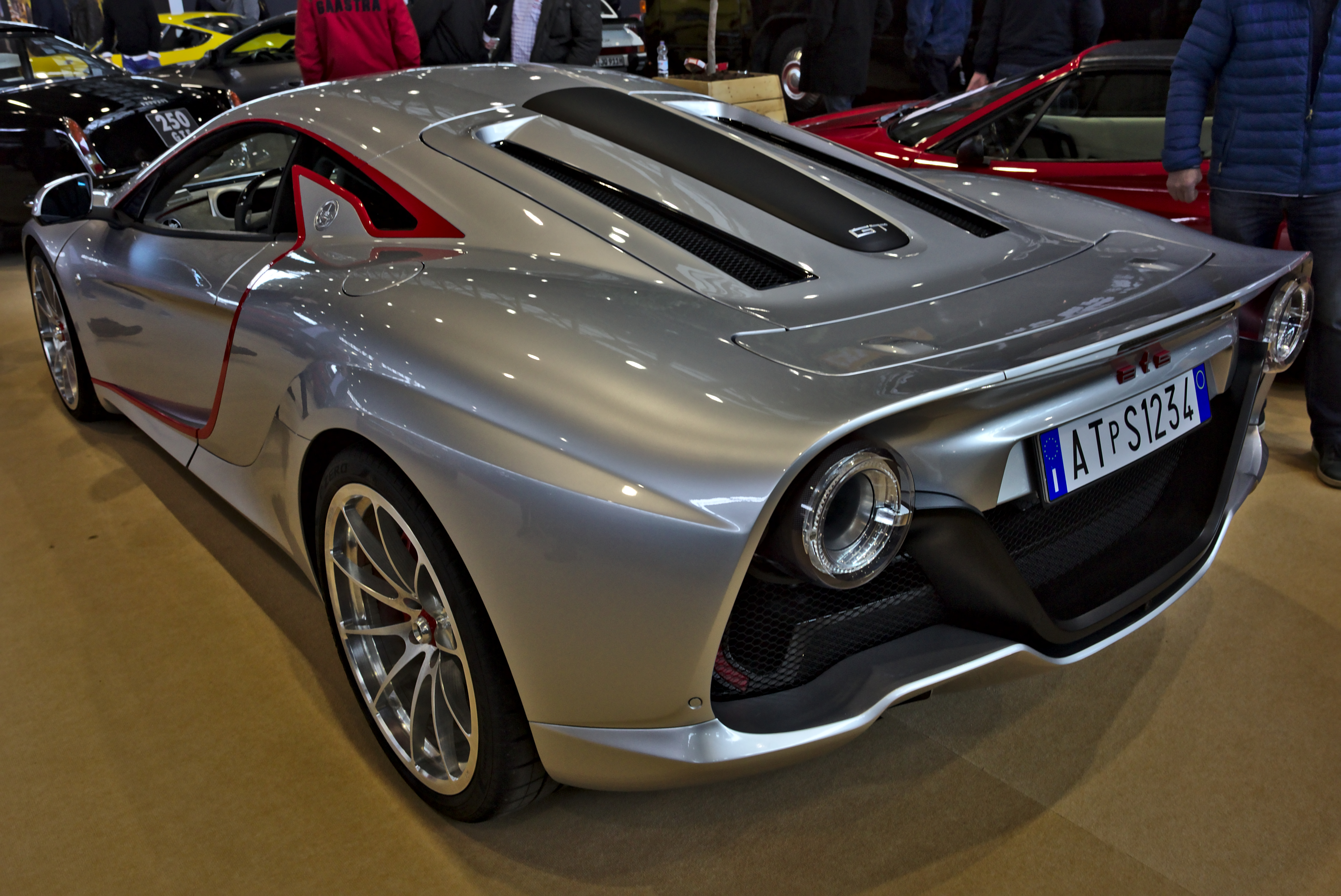 Automobili Turismo e Sport GT at Retro Classics 2018